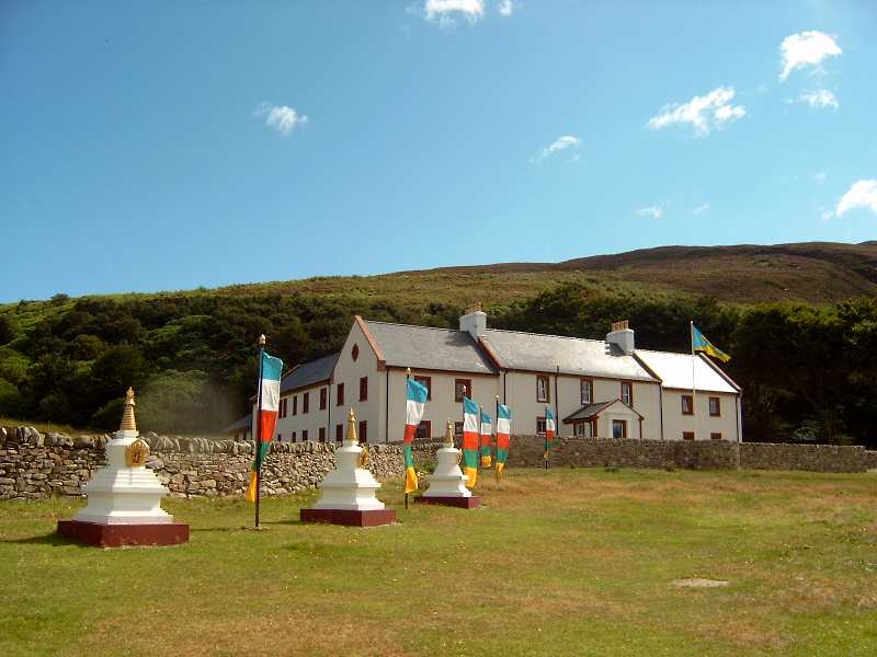 Centre for world peace and health on Holy Isle with flags and stupas.